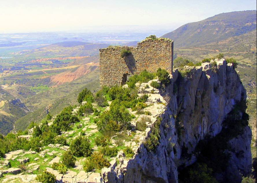 Wall over the rift